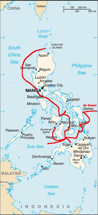 Map of the 1560s Miguel López de Legazpi expedition, the route of European discovery of the Philippines, after crossing the Pacific from the Viceroyalty of New Spain (México). The Spanish navigator also established the Spanish East Indies (colonial Philippines), and the first Spanish settlement there, founding Cebu in 1565.